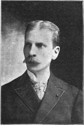 Portrait of Emanuel Hugo Eugen Ottokar von Aderkas